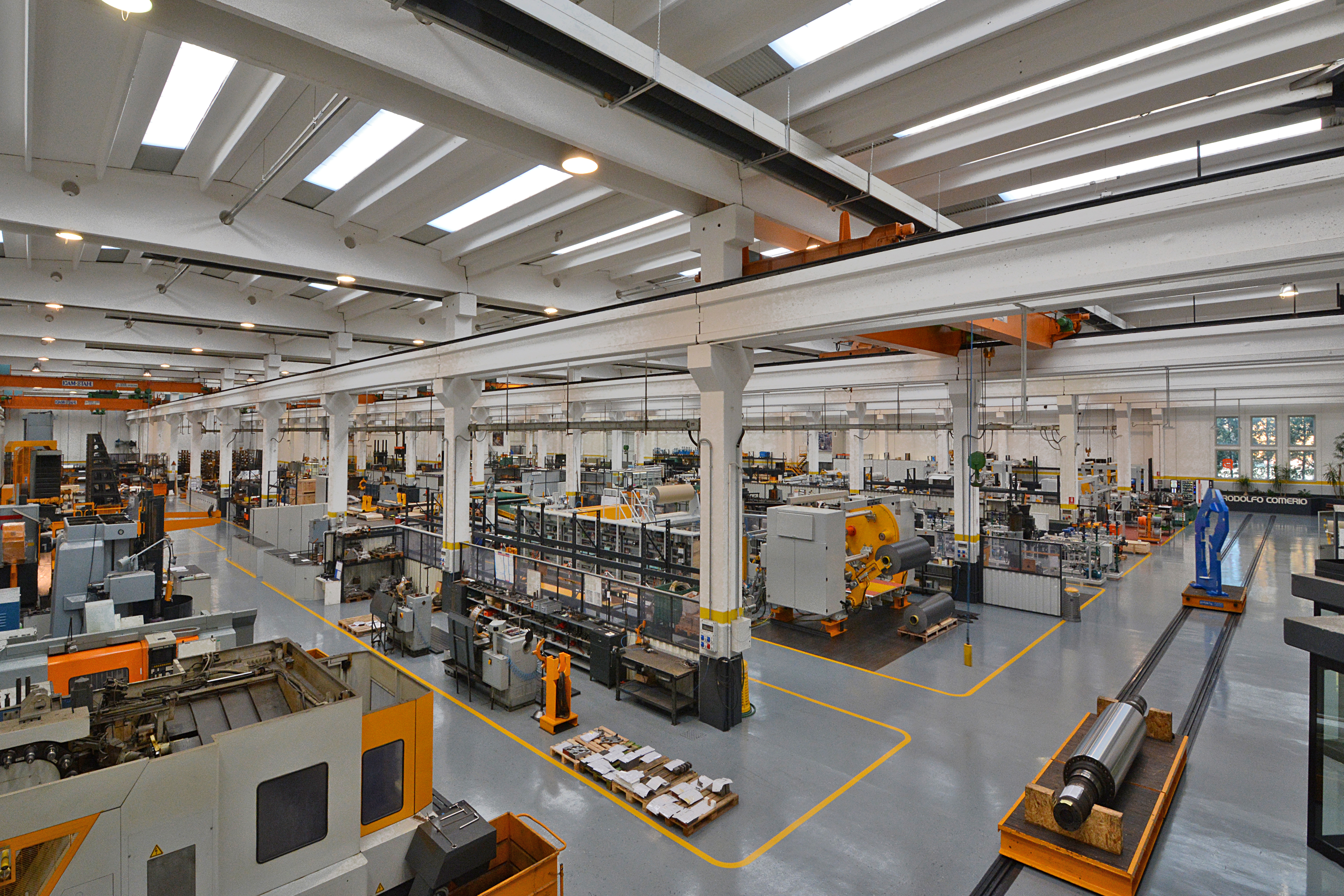 Inside of Rodolfo Comerio renewed facilities in Via IV Novembre 165, Solbiate Olona